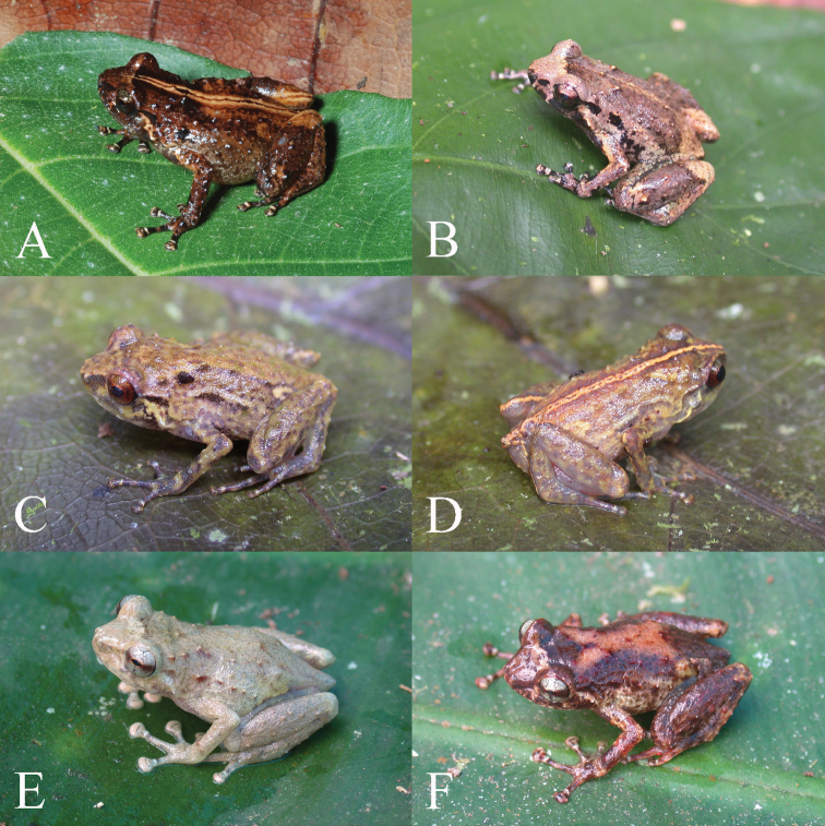 Portraits in life of A paratype of Oreophryne cameroni sp. n. (BPBM 34678) from Keki Lodge, Adelbert Mts., 850 m elevation B paratype of Oreophryne cameroni sp. n. (BPBM 22689) from Torricelli Mts., 550 m elevation C paratype of Oreophryne parkopanorum sp. n. (BPBM 22788) from near summit of Mt. Sapau, Torricelli Mts., 1100–1300 m elevation; and D holotype of Oreophryne parkopanorum sp. n. (BPBM 22789) from near summit of Mt. Sapau, Torricelli Mts., 1100–1300 m elevation E holotype of Oreophryne gagneorum sp. n. (BPBM 20542) from Rossel Island, 720 m elevation; and (F) paratype of Oreophryne gagneorum sp. n. (BPBM 20544) from Rossel Island, 720 m elevation.